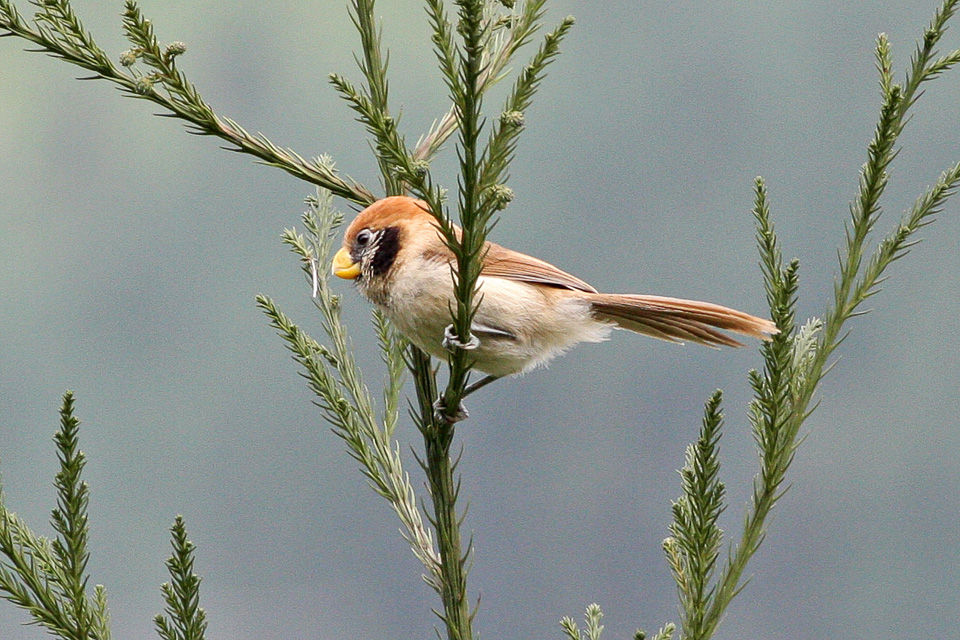 Journey to Wawu Shan, Sichuan